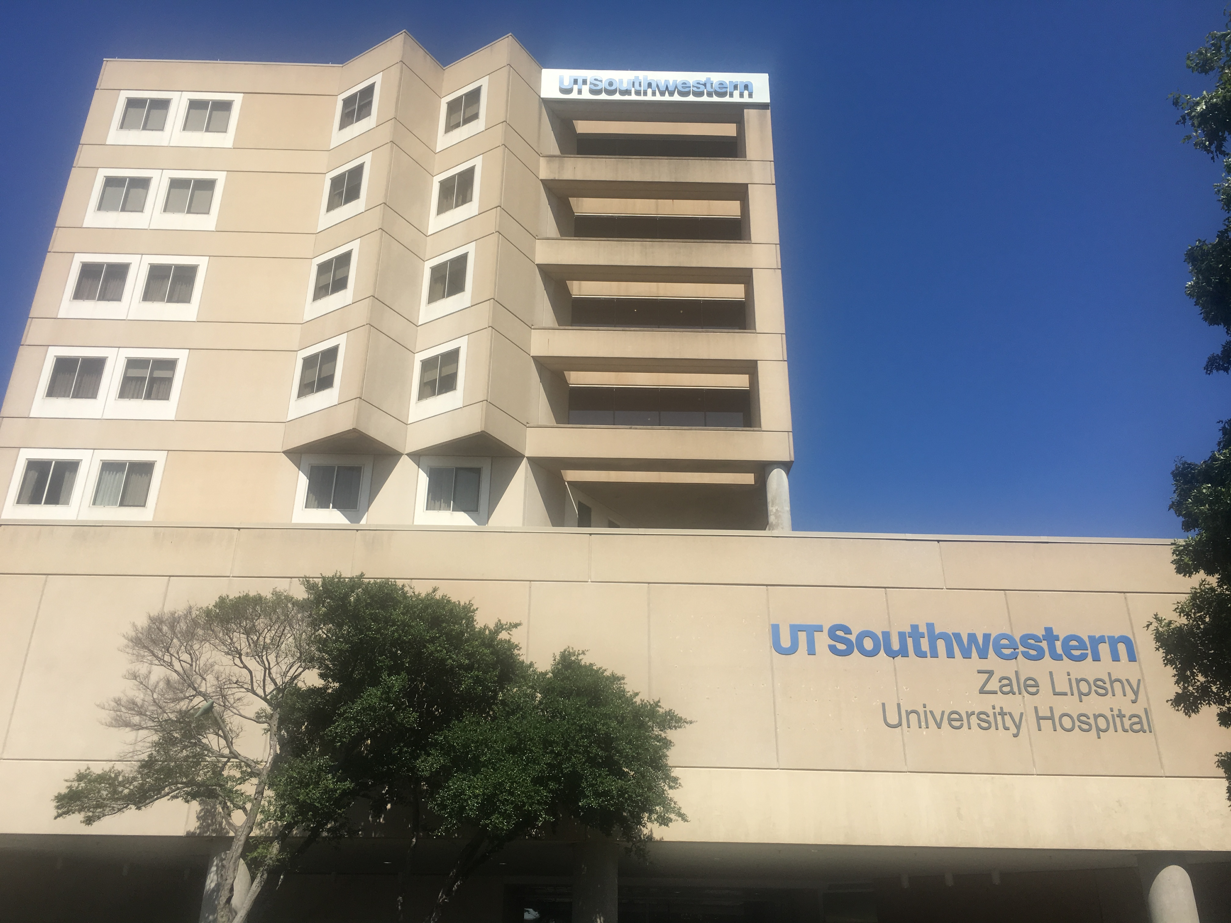 Zale Lipshy University Hospital